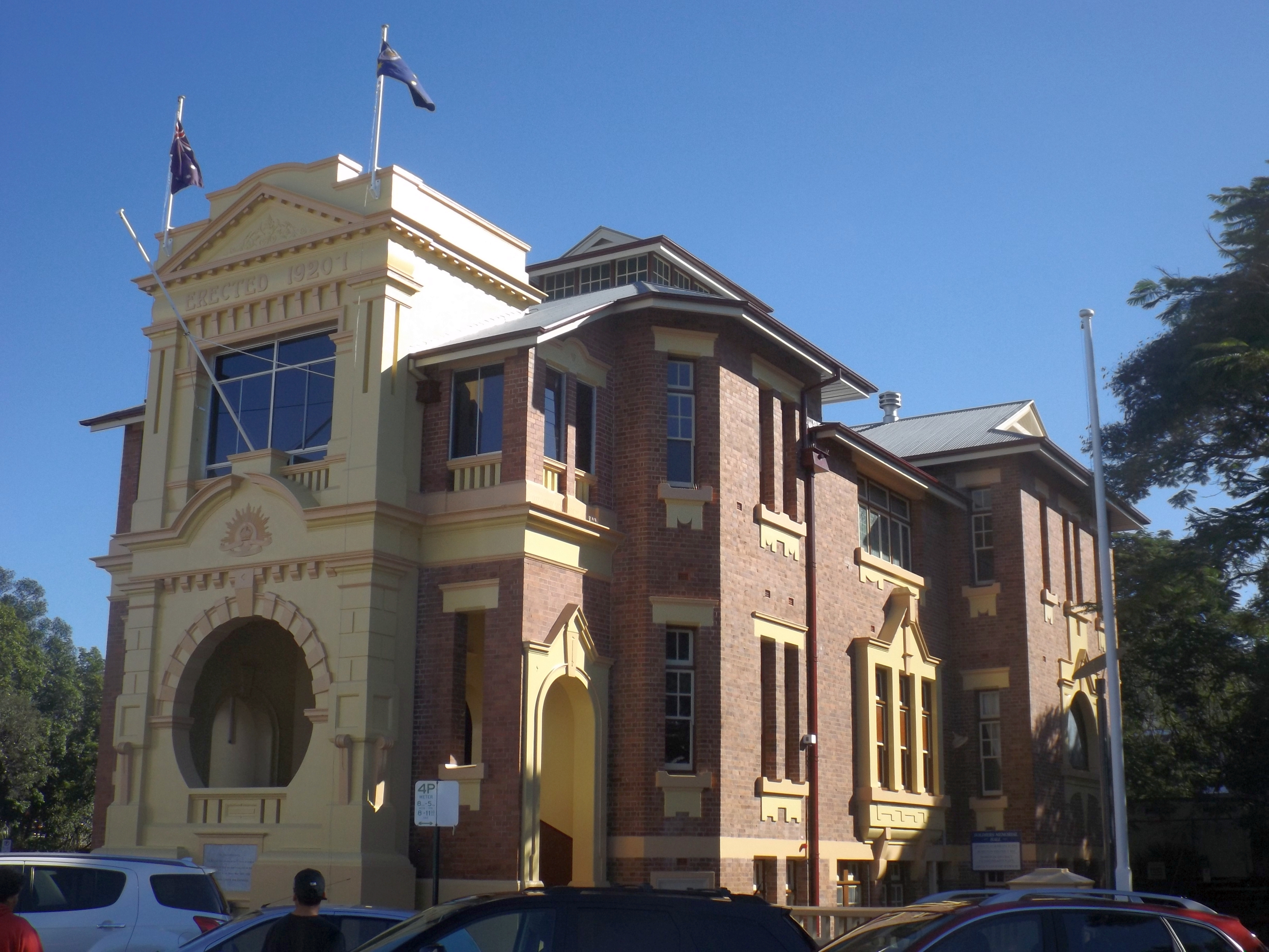 Photo of the Soldiers' Memorial Hall at Ipswich, Queensland, Australia.